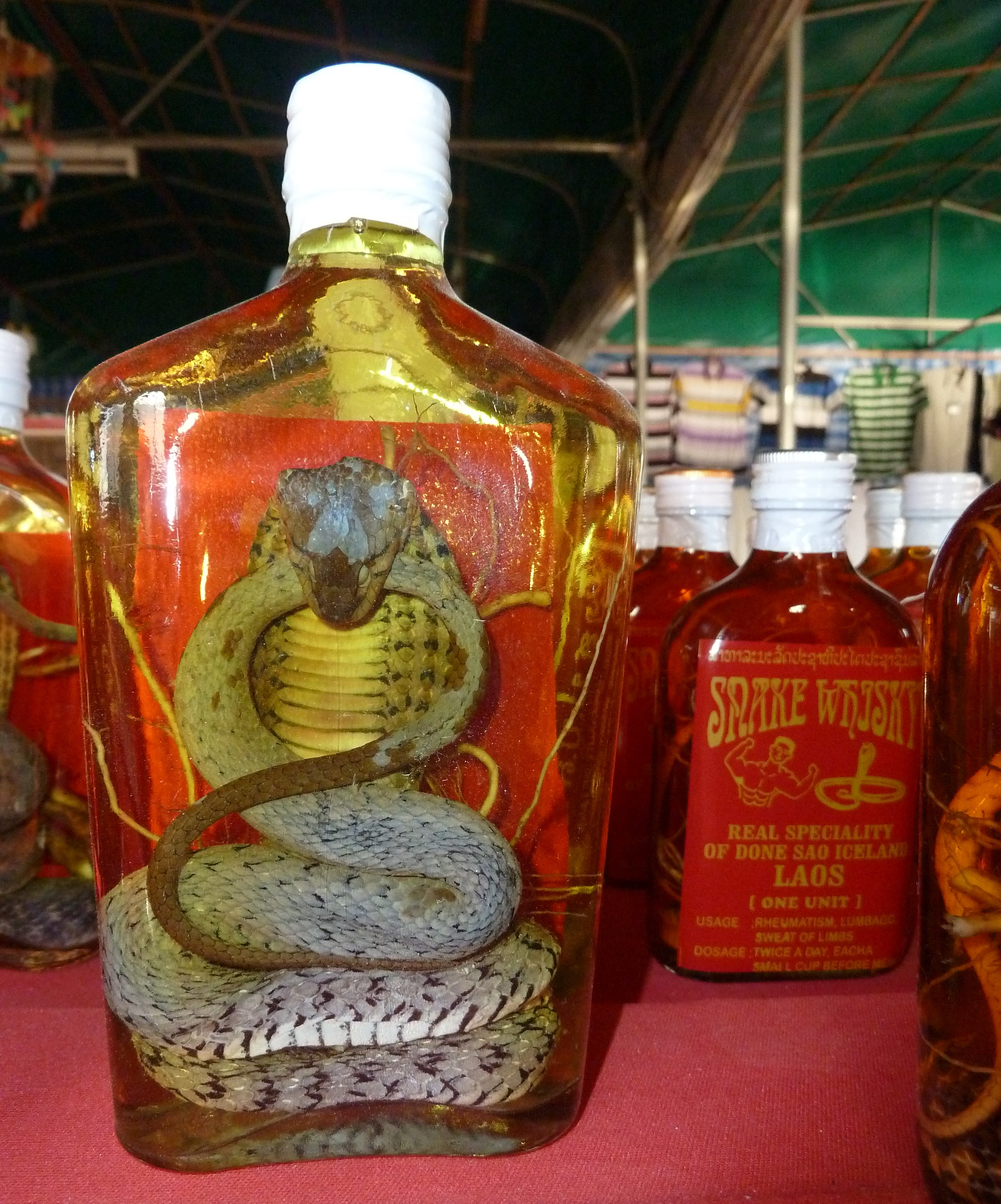 Snake wine (Rượu thuốc), Laos Market, Golden Triangle, Thailand